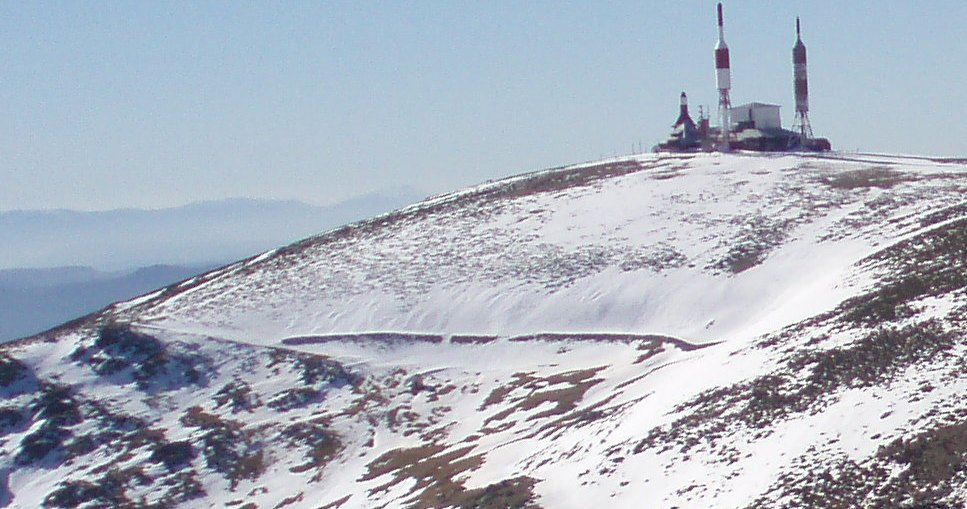 Ventisquero de la Condesa, a snow-acumulation close to Bola del Mundo's summit (Guadarrama mountain range, Central Spain).